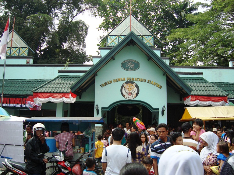 Pematang Siantar Zoo, located in Pematangsiantar city, Simalungun regency, North Sumatra.